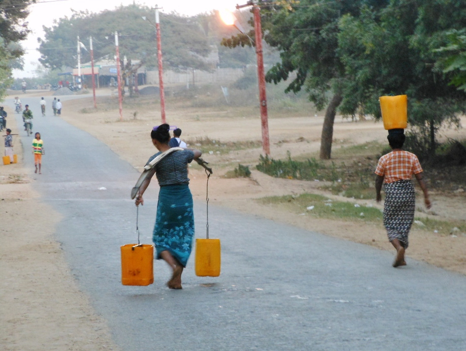 Women Working Hard